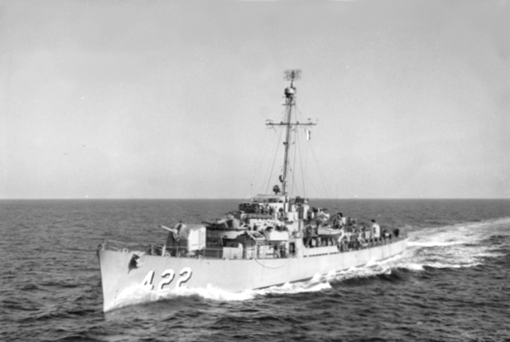 The U.S. Navy destroyer escort USS Douglas A. Munro (DE-422) approaching the Royal Australian Navy aircraft carrier HMAS Sydney (R17), not visible, in Korean waters, between 31 August 1951 and 22 February 1952.